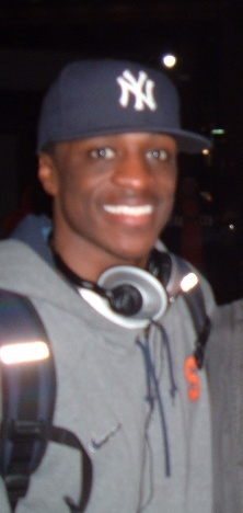 Photo of Jonny Flynn after the epic 6 overtime basketball game vs. Connecticut when Flynn played for the Syracuse Orange